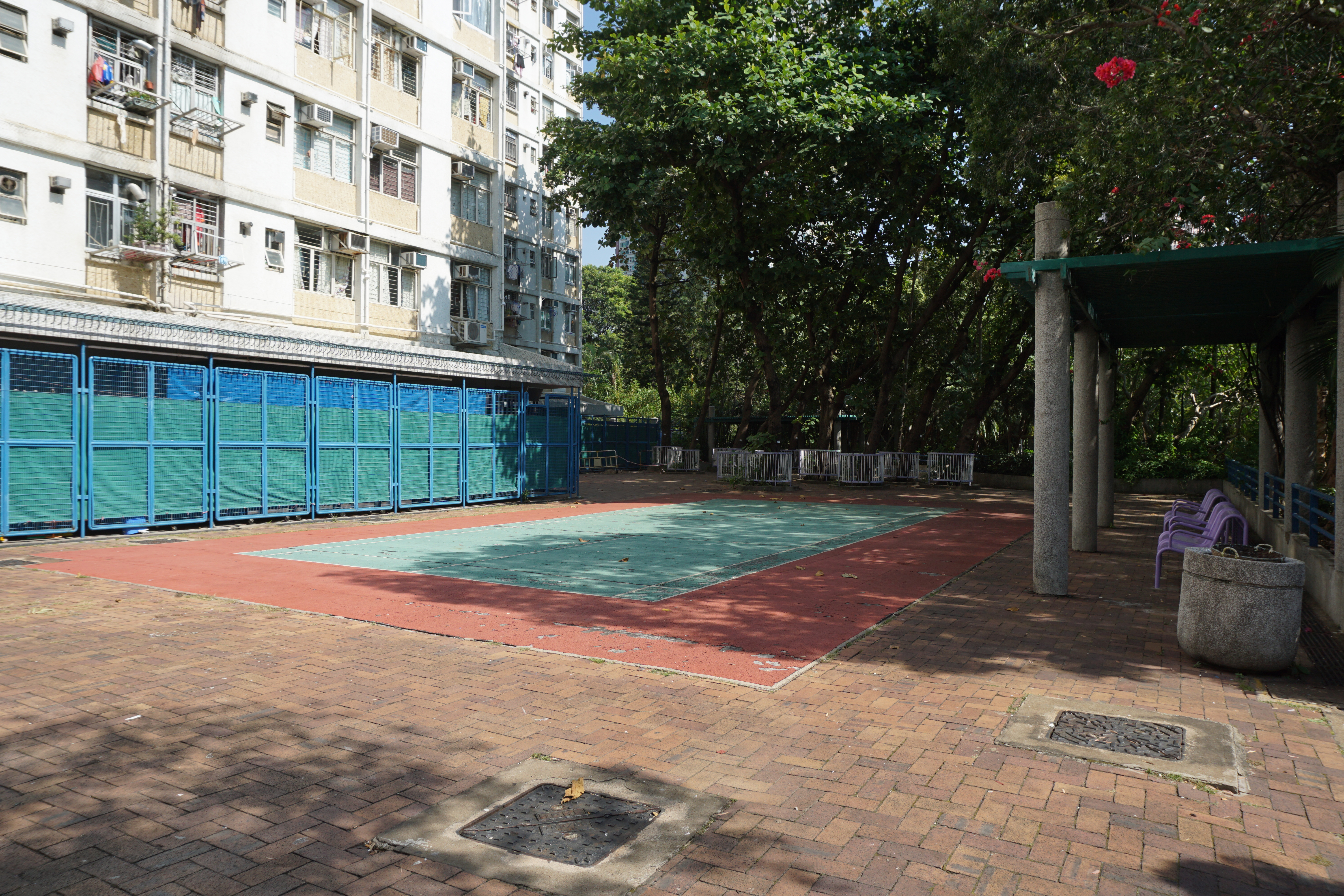 Nam Cheong Estate in Sham Shui Po, Hong Kong.